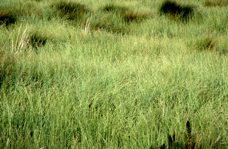 Glyceria occidentalis at Humboldt Bay National Wildlife Refuge Complex, California, USA